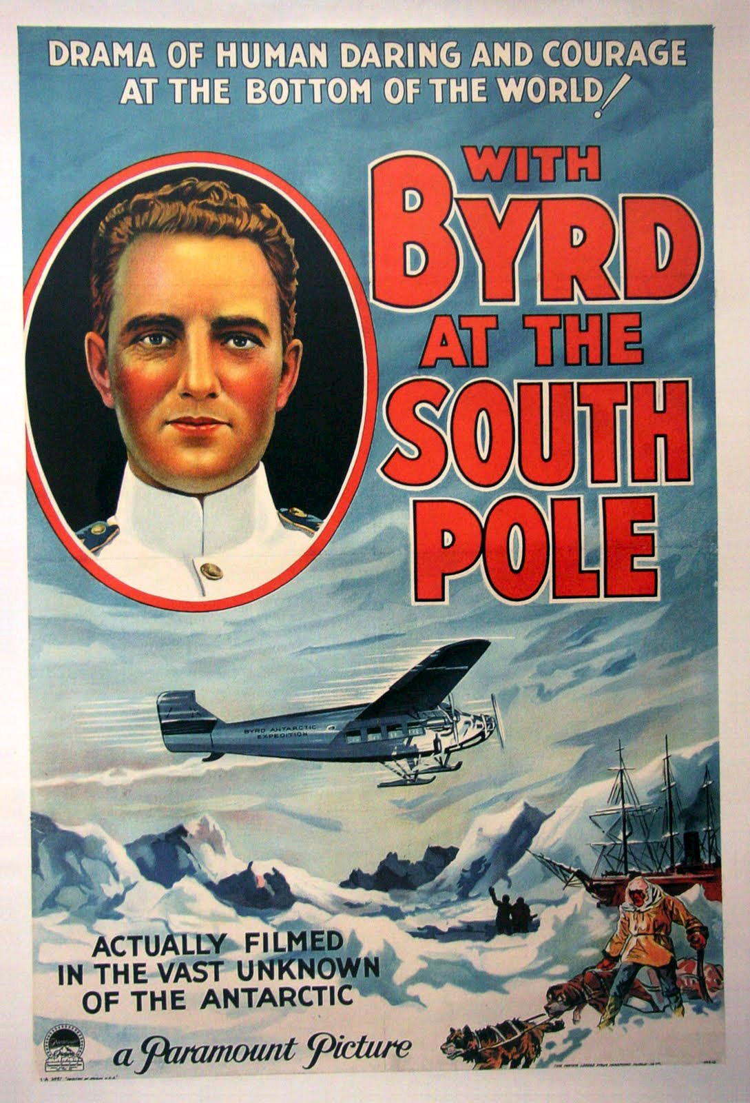 Poster for the 1930 film With Byrd at the South Pole. The item has no copyright markings on it as can be seen in the links above. At lower left is Country of origin USA and at lower right, This poster leased from Paramount Famous Lasky Corp.